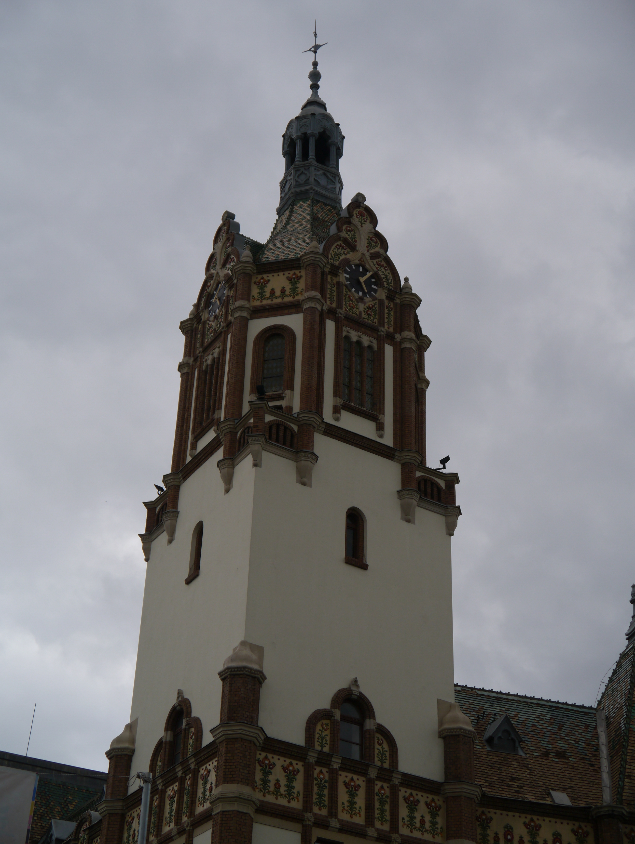 Tower of the Town Hall, Kiskunfélegyháza, Southern Hungary